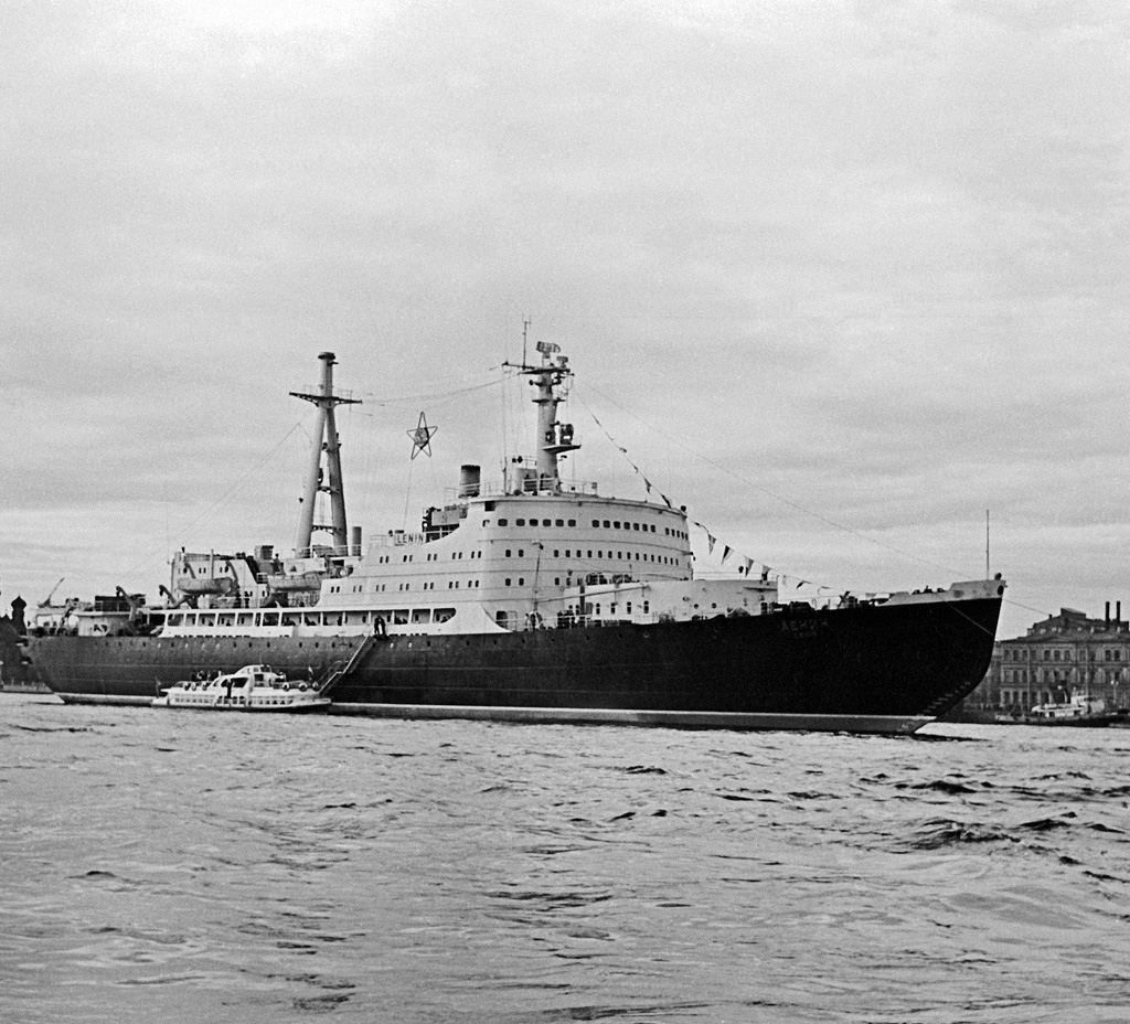 “Lenin nuclear ice-breaker on the Neva River”. Lenin nuclear ice-breaker on the Neva River in Leningrad (now St.Petersburg)